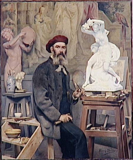 Justin Chrysostôme Sanson. Portrait by Henri-Charles Daudin